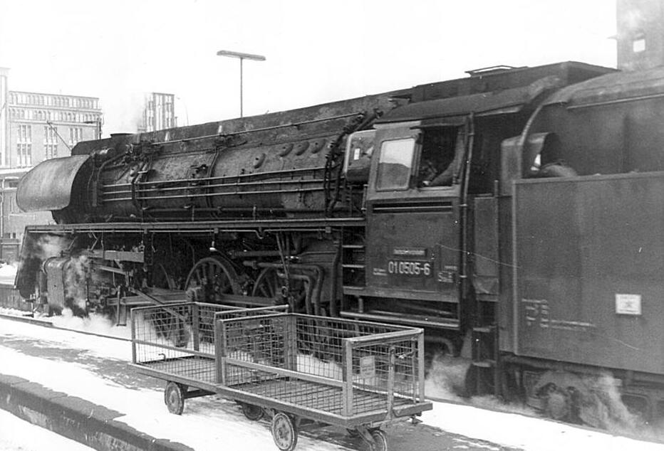 Photo by R. W. Rynerson, shows a Reichsbahn Pacific-class steam locomotive kicking up dirty snow on a March 1971 departure of the evening "D-train" Interzone Express from Hamburg-Hauptbahnhof for Berlin. Although this class of main line steam power was already fading away on the West German Deutsche Bundesbahn, they were still used on major trains of the Deutsche Reichsbahn as a motive power shortage existed pending the delivery of heavy Diesels from the Soviet Union.